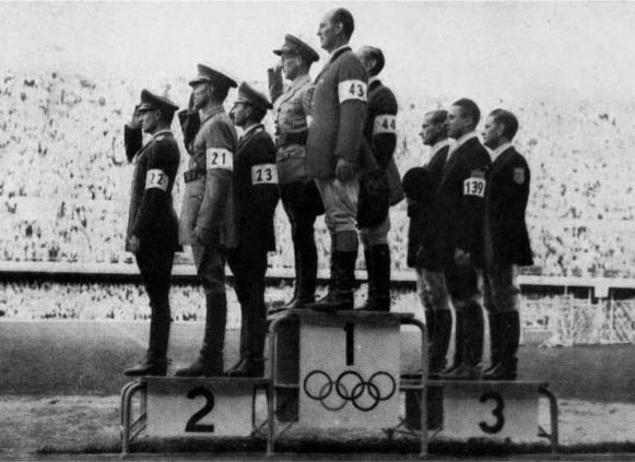 The medal-winners in the Prix des Nations team event. In front is Chile's team. Great Britain is in the middle and the U.S.A. on the right.